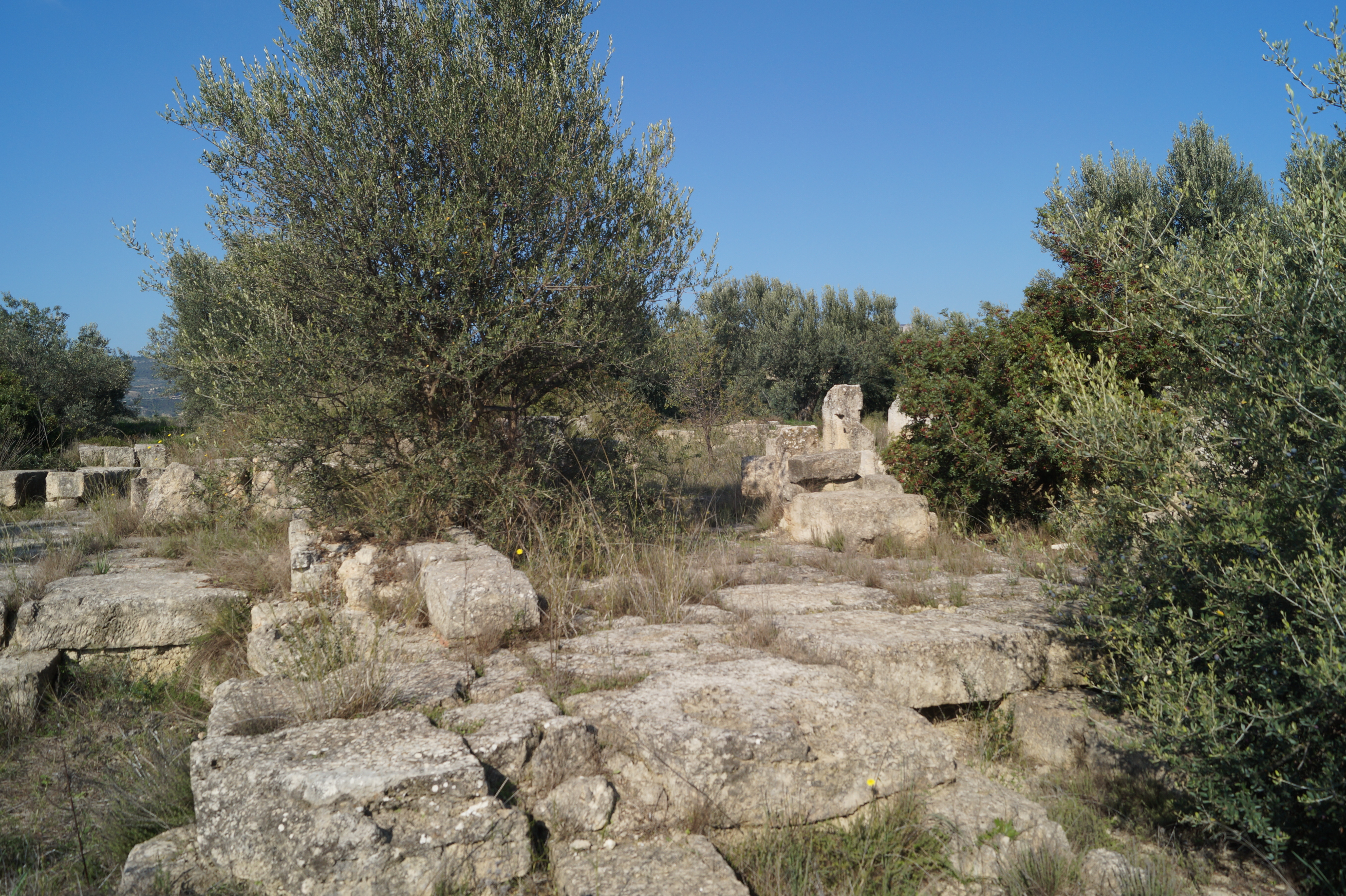 Archaies Kleones, Corinthia, Greece: Ancient terrace (Beginning of the 6th century BC) on the lower acropolis.